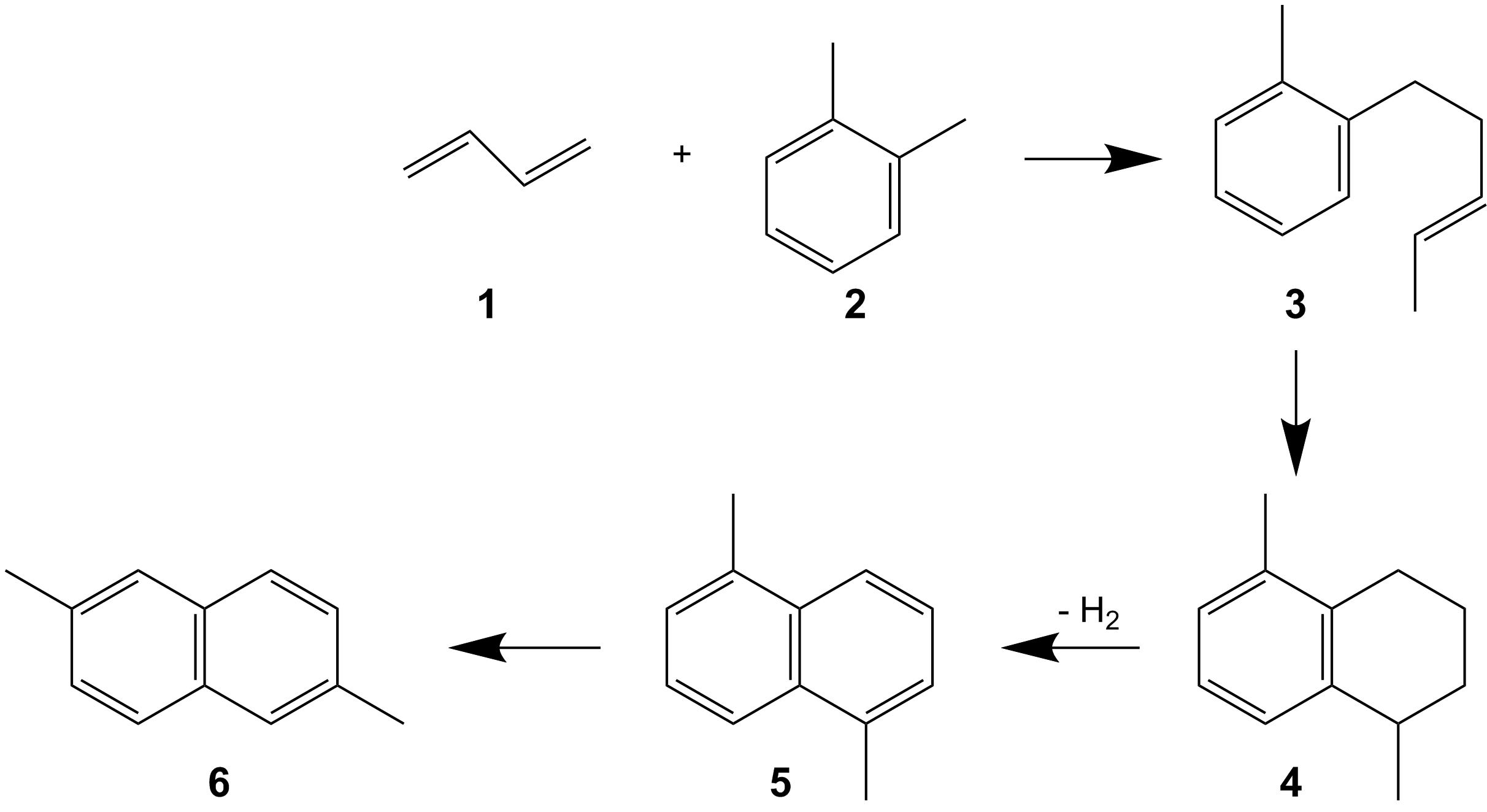 Synthesis of 2,6-dimethylnaphthalene: the "alkenylation" route